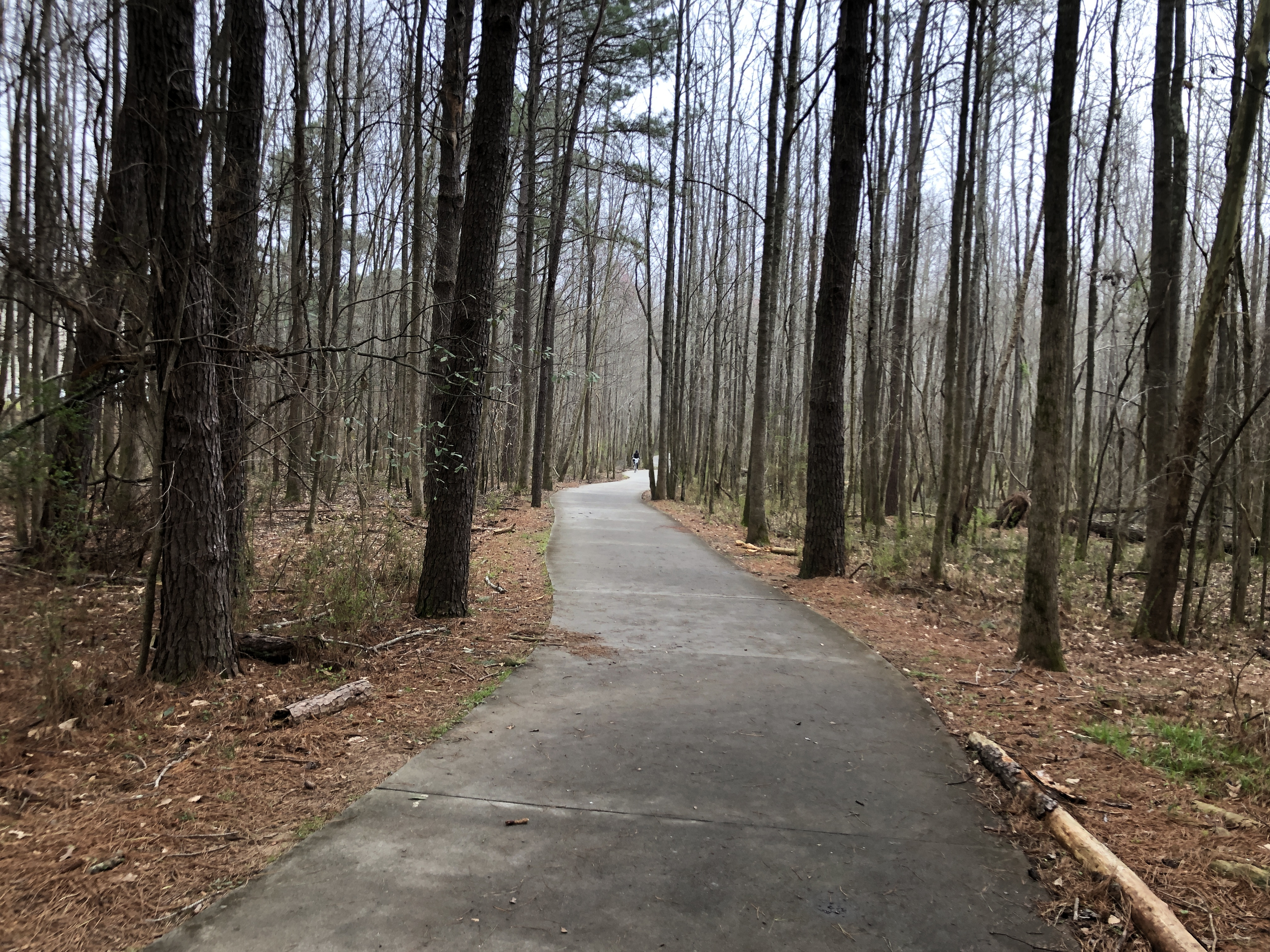 Suwanee Creek Greenway